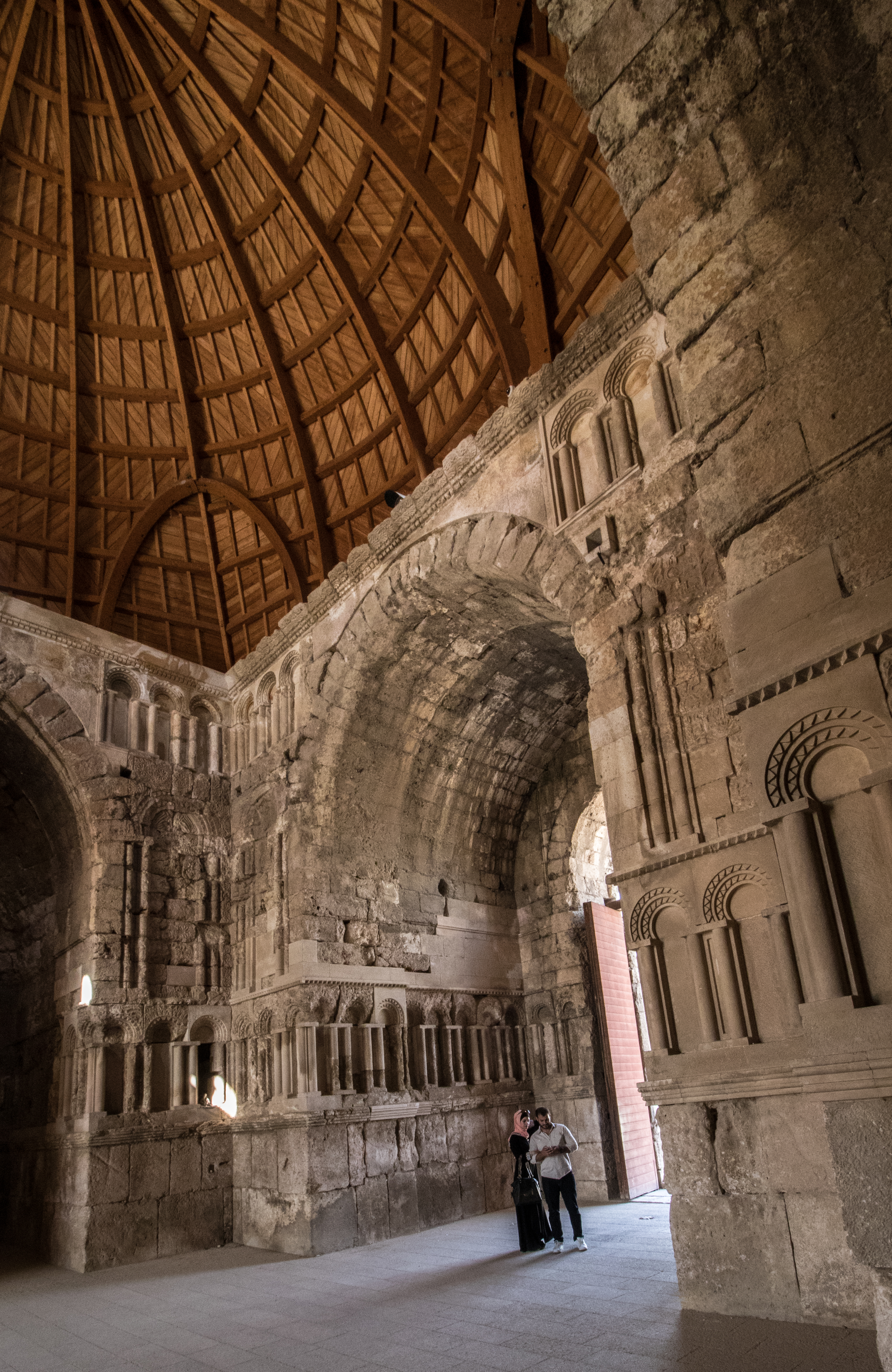 A palace built in AD 720 by Umayyad Arabs on the Citadel above what is now modern day Amman was destroyed by earthquakes in AD 749 and never fully rebuilt. After much debate by archaeologists as to whether the entrance was originally open or domed a blue dome was added. A welcome relief to the increasing warmth outside the shaded palace entrance was an oasis of coolness.